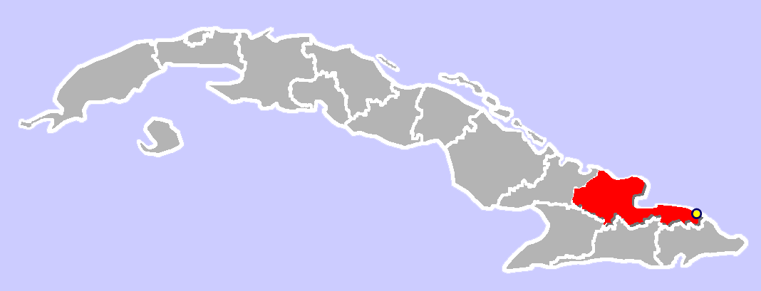 Location of Moa, Cuba